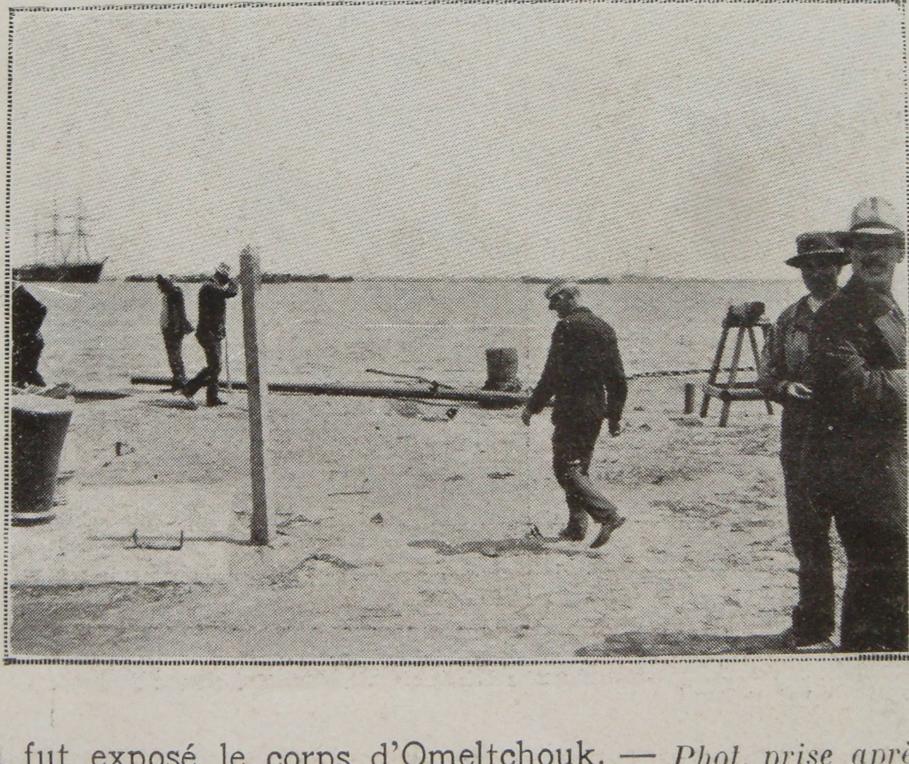 Potemkin mutiny. Odessa port. View of the place at Novy Mile kew at which corps of killed sailier Vakulenchuk was disembark and at which meeting started